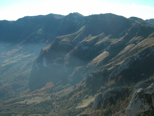 The Malloak of Aralar, viewed from mount Balerdi